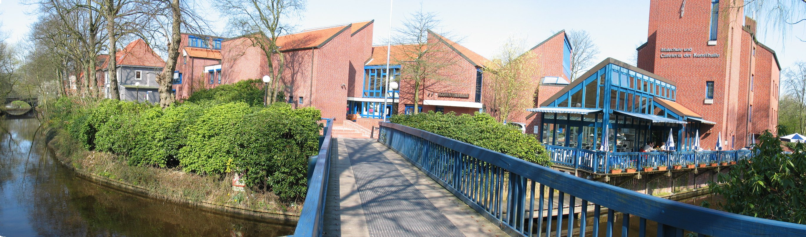 Artmuseum "Kunsthalle" Emden, Germany.